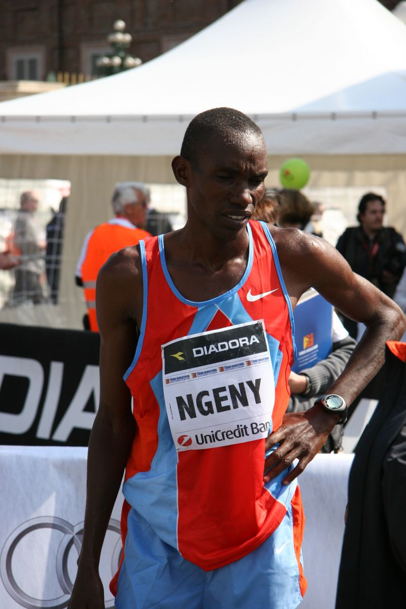 Joseph Ngeny Kiprotich, Top Runner alla Turin Marathon, 13 aprile 2008